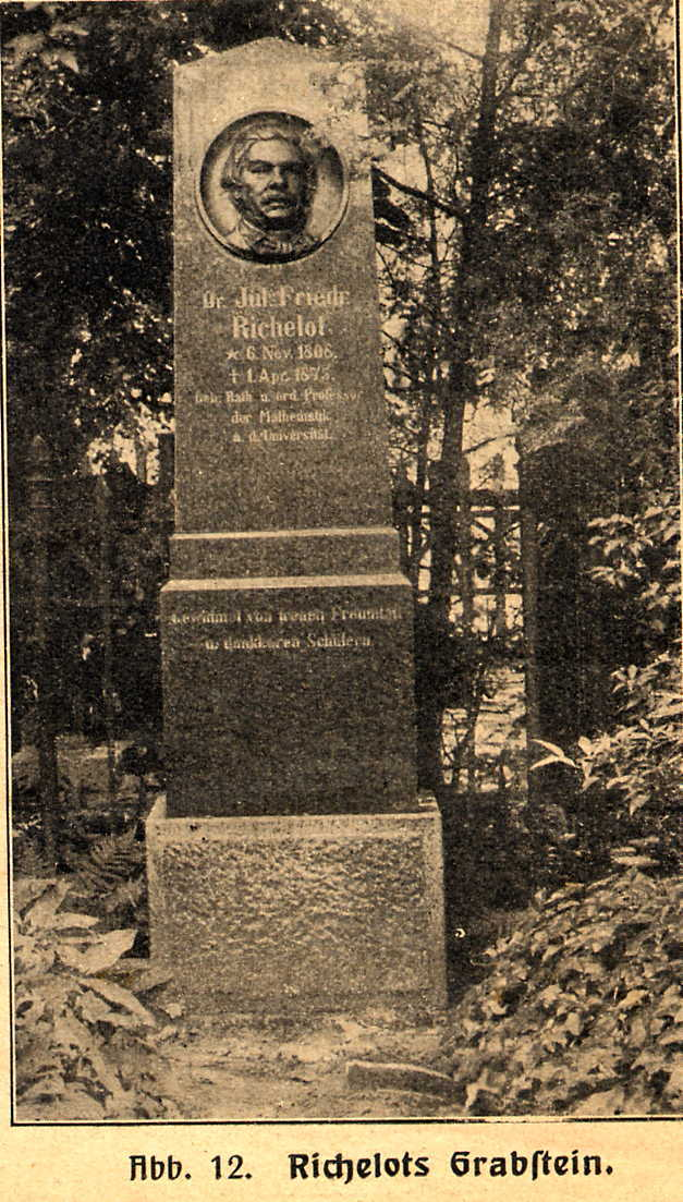 The grave was situated in Königsberg, todays Kaliningrad, see "Gelehrtenfriedhof (Königsberg). Julius Friedrich Richelot (1808 - 1875) was a mathematics